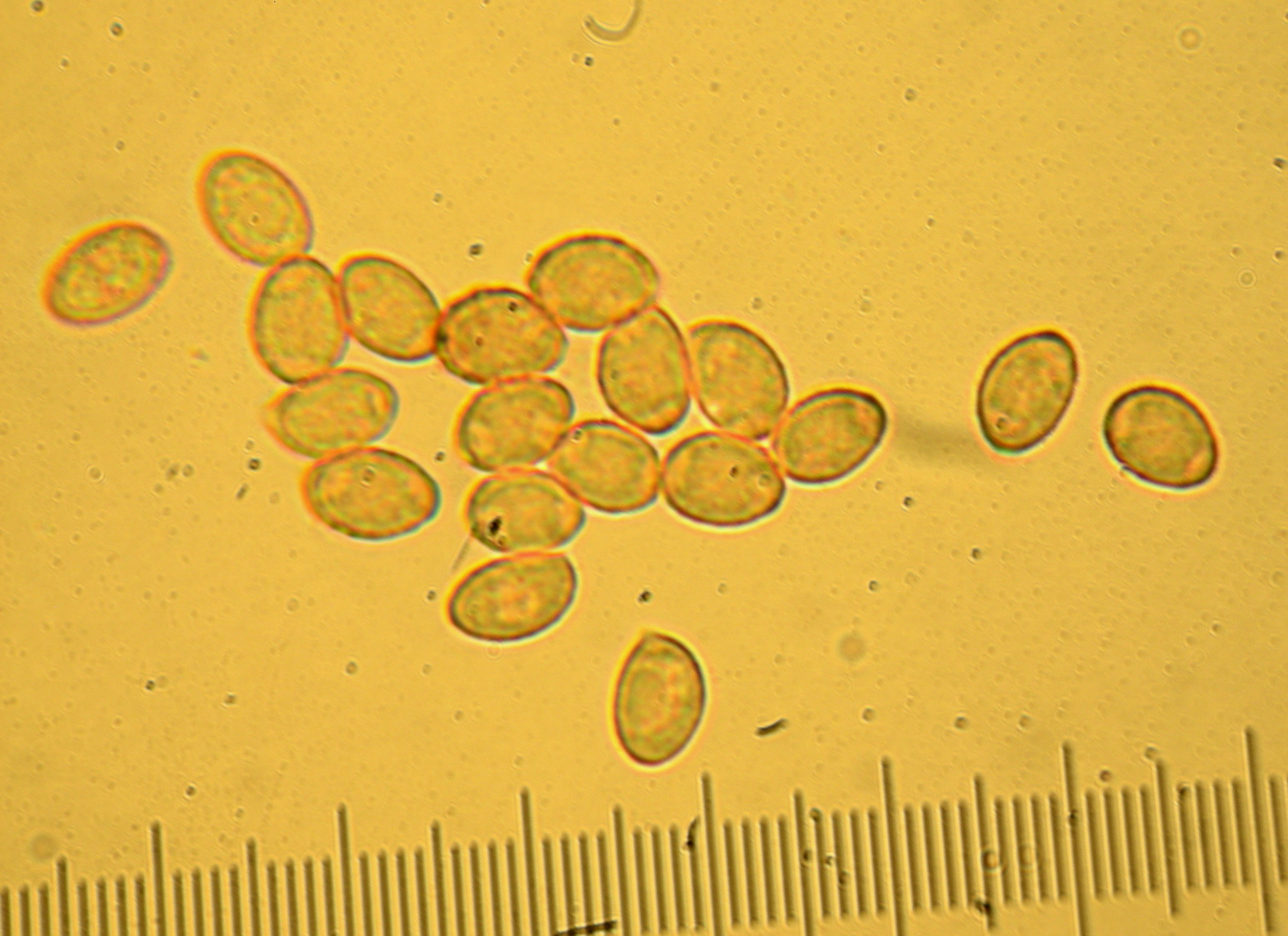 Cortinarius obtusus (Fr.) Fr. Image location: Jackson Demonstration State Forest, Mendocino Co., California, USA The caps on these were up to 4.4 cm across and the stems up to 80mm long X 8.5 mm thick. The caps were hygrophanous. The spores were ~ 7.0-8.0 X 5.0-5.6 microns. Cortinarius acutus was another choice but these did seem more robust and the spores slightly wider. Used references: Mushrooms of North America by Roger Phillips. Mushroom Hobby website. For more information about this, see the observation page at Mushroom Observer.